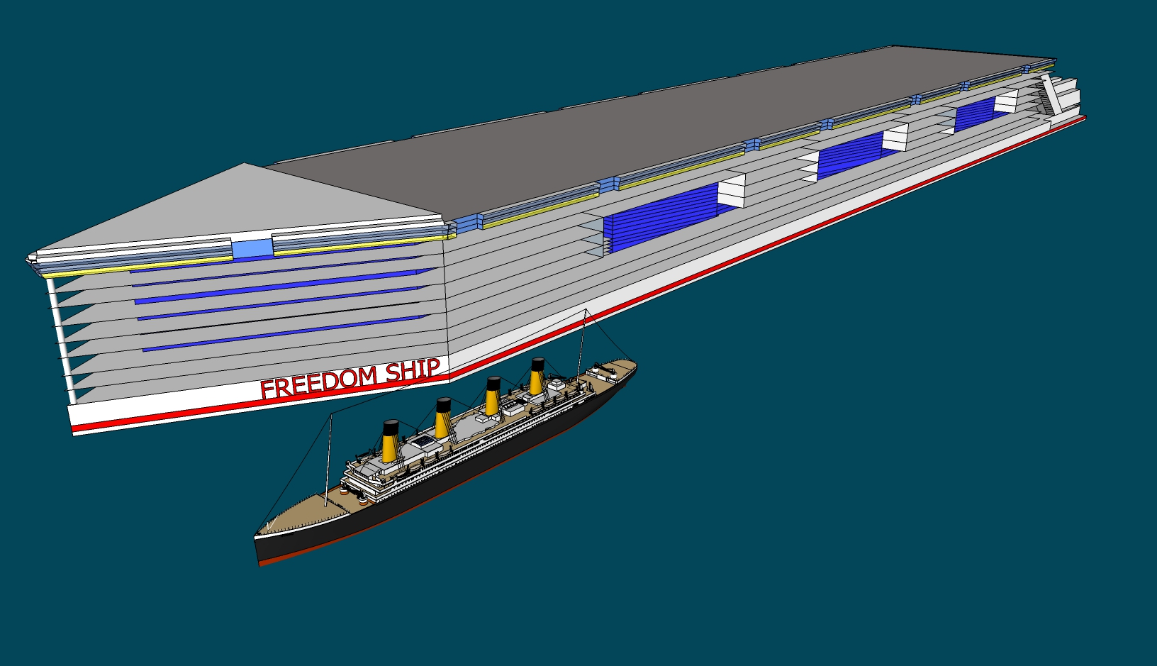 Comparison between "RMS Titanic" and the future "Freedom Ship" vessel.